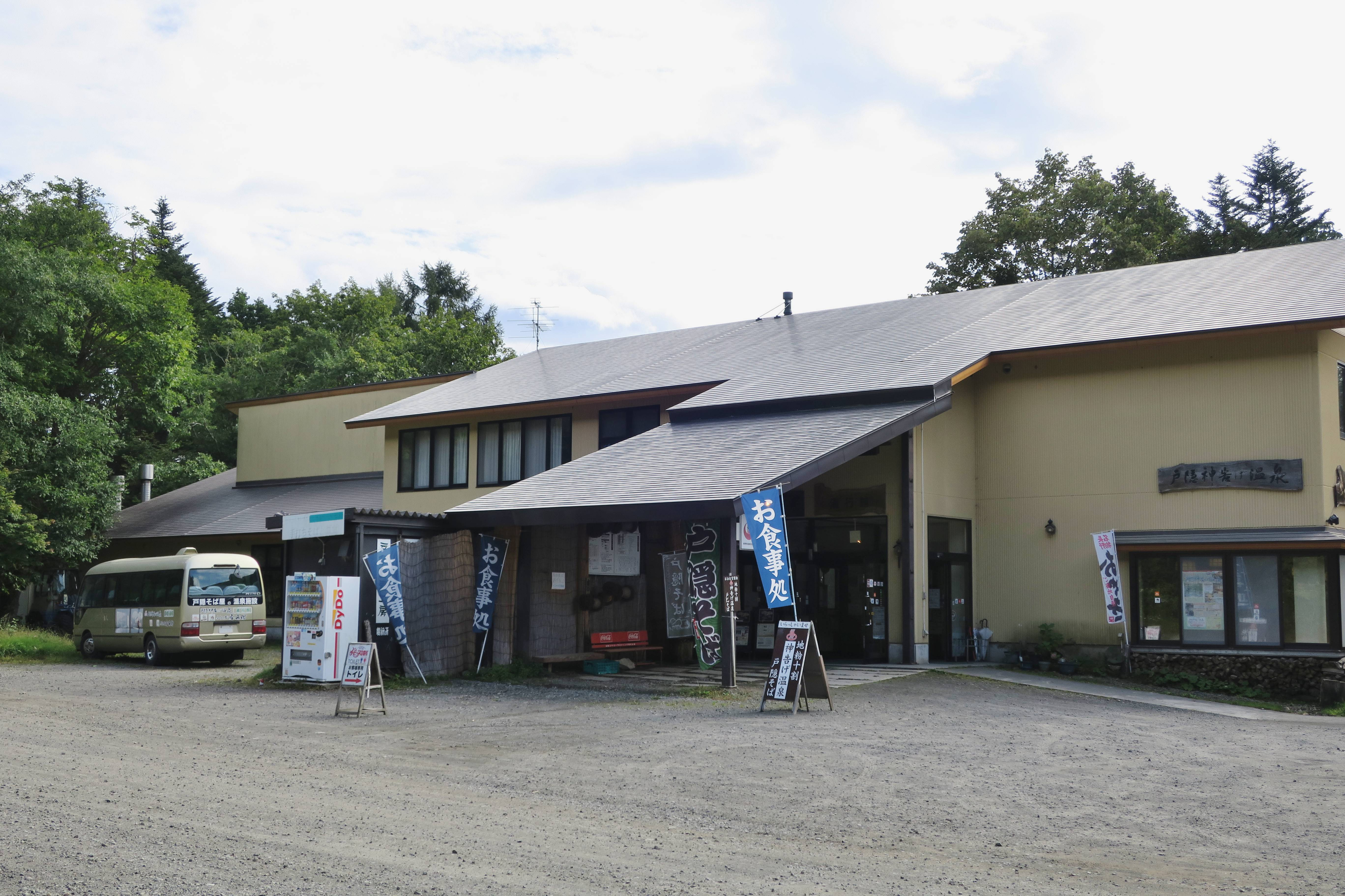 Togakushi Kamitsuge Onsen (Nagano, Nagano).